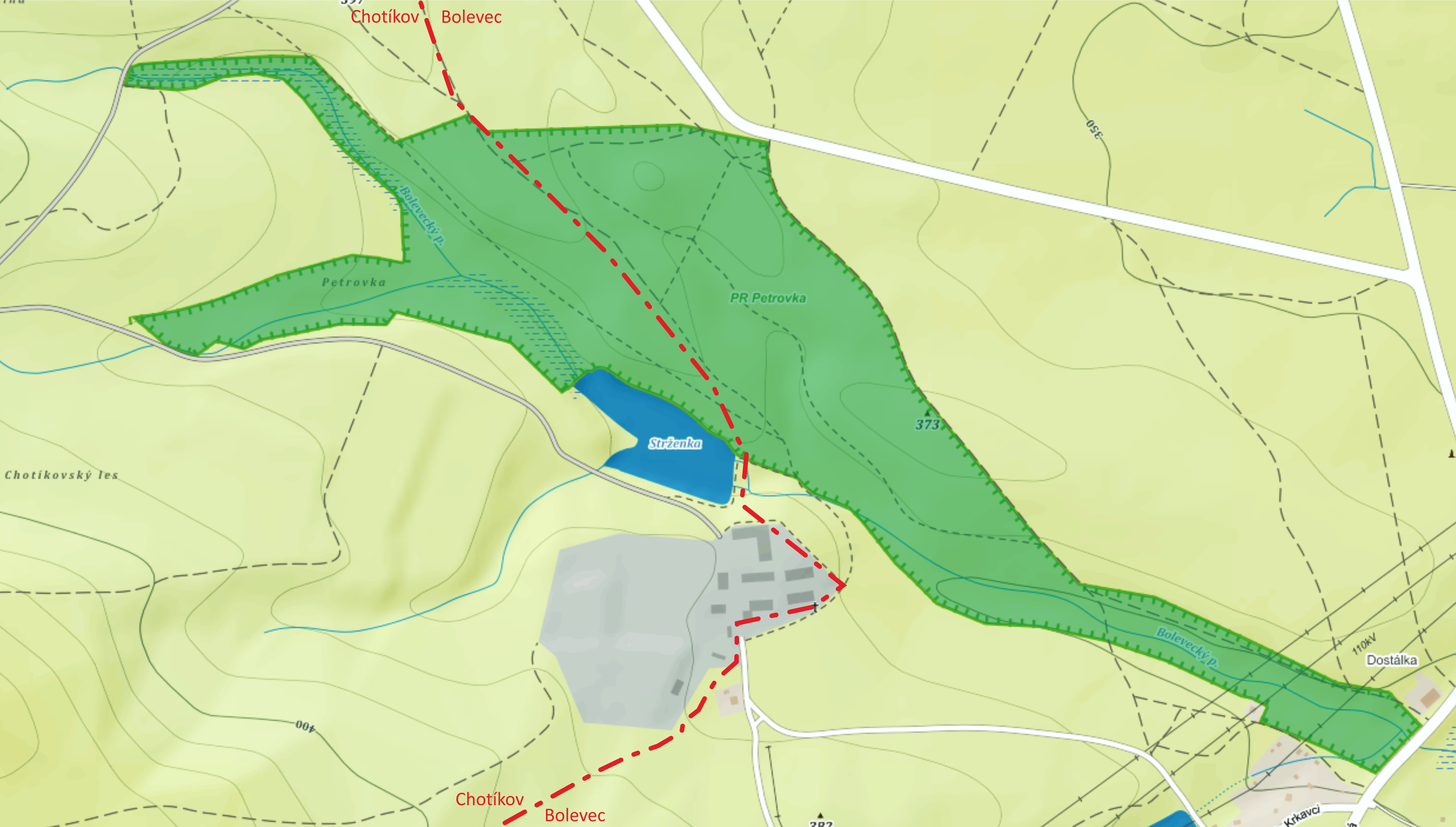 Nature reserve Petrovka in Plzeň-city and Plzeň-North district